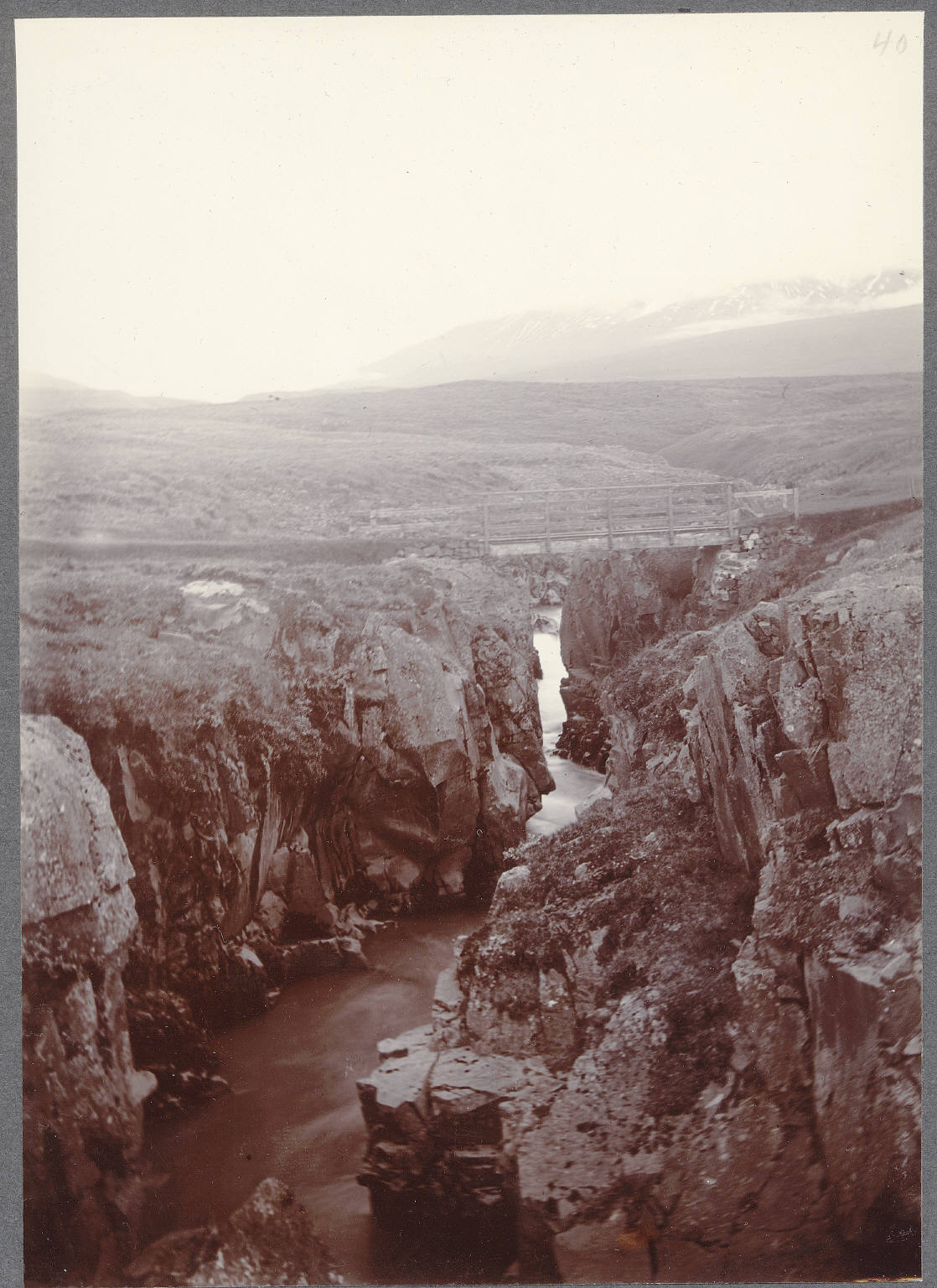 Collection: Icelandic and Faroese Photographs of Frederick W.W. Howell, Cornell University Library Title: Glerárbridge, near Akureyri. Vindheimajökull. Date: ca. 1900 Place: Glerá (Iceland) Medium: collodion print Repository: Fiske Icelandic Collection, Rare & Manuscript Collections, Cornell University Library Accession: 1923.4.54 URL: Persistent URI: There are no known U.S. copyright restrictions on this image. The digital file is owned by the Cornell Univeristy Library which is making it freely available with the request that, when possible, the Library be credited as its source. We had some help with the geocoding from Web Services by Yahoo!